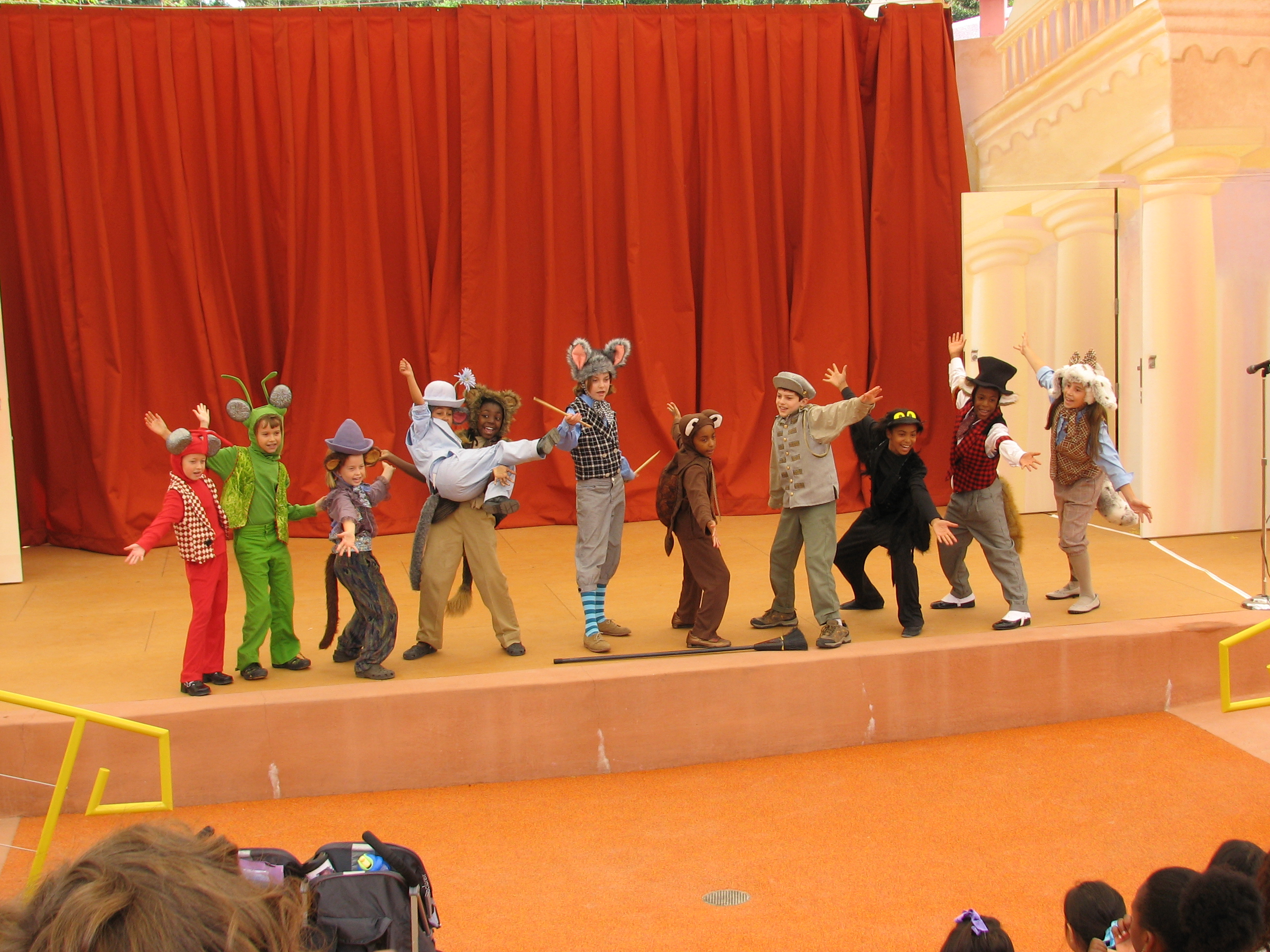 Finale of "Aesop's Fables," performance at Children's Fairyland, Oakland CA, 6/29/2008